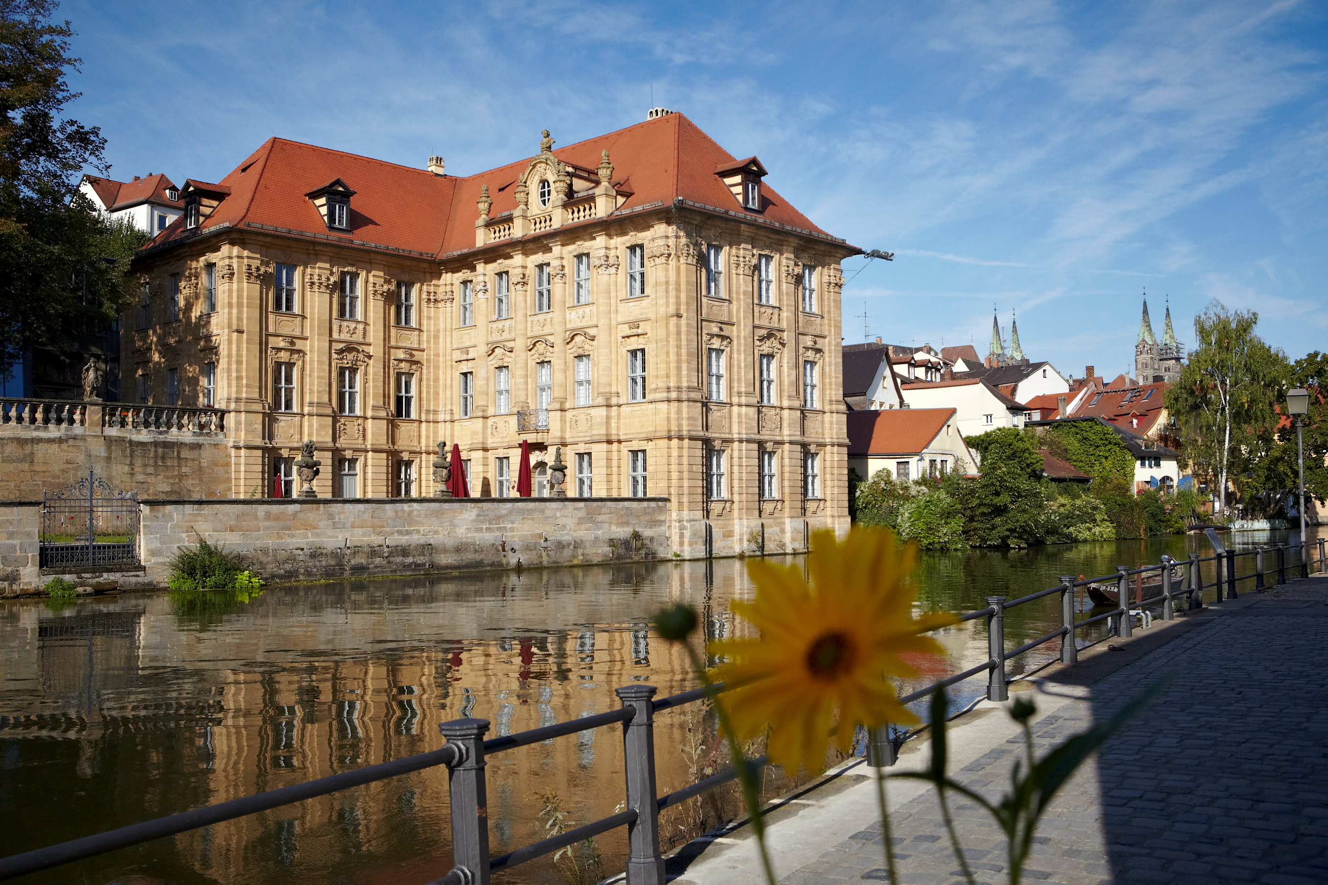 Villa Concordia Bamberg, view from the Regnitz bank on the other side, direction historic district Bamberg